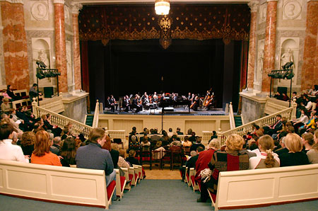 Ermitage Theater